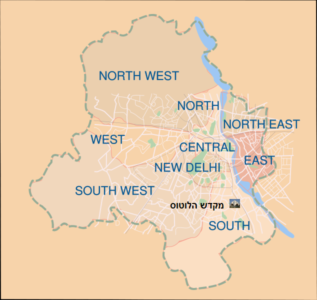 based on